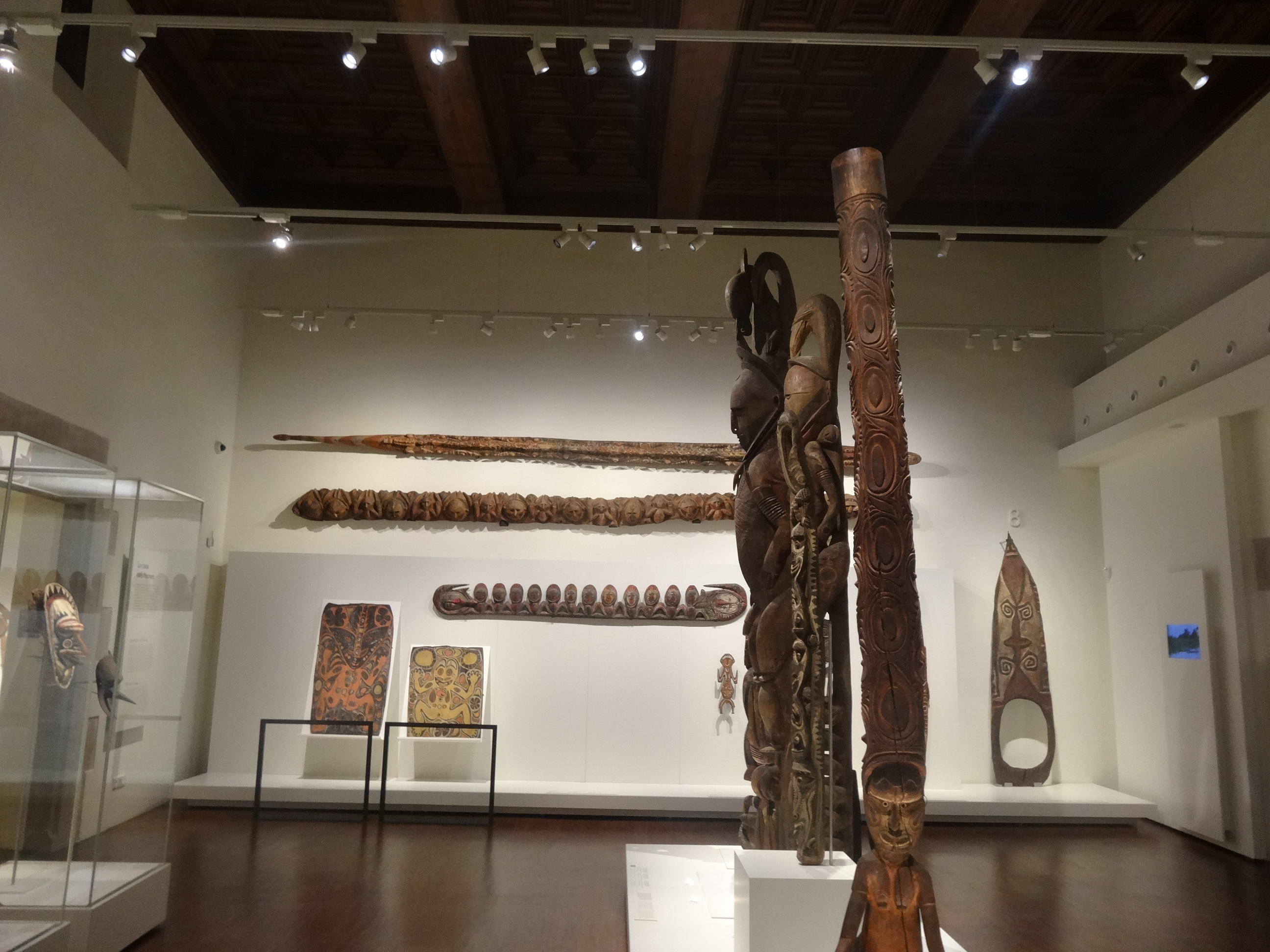 Museu de Cultures del Món, Barcelona.